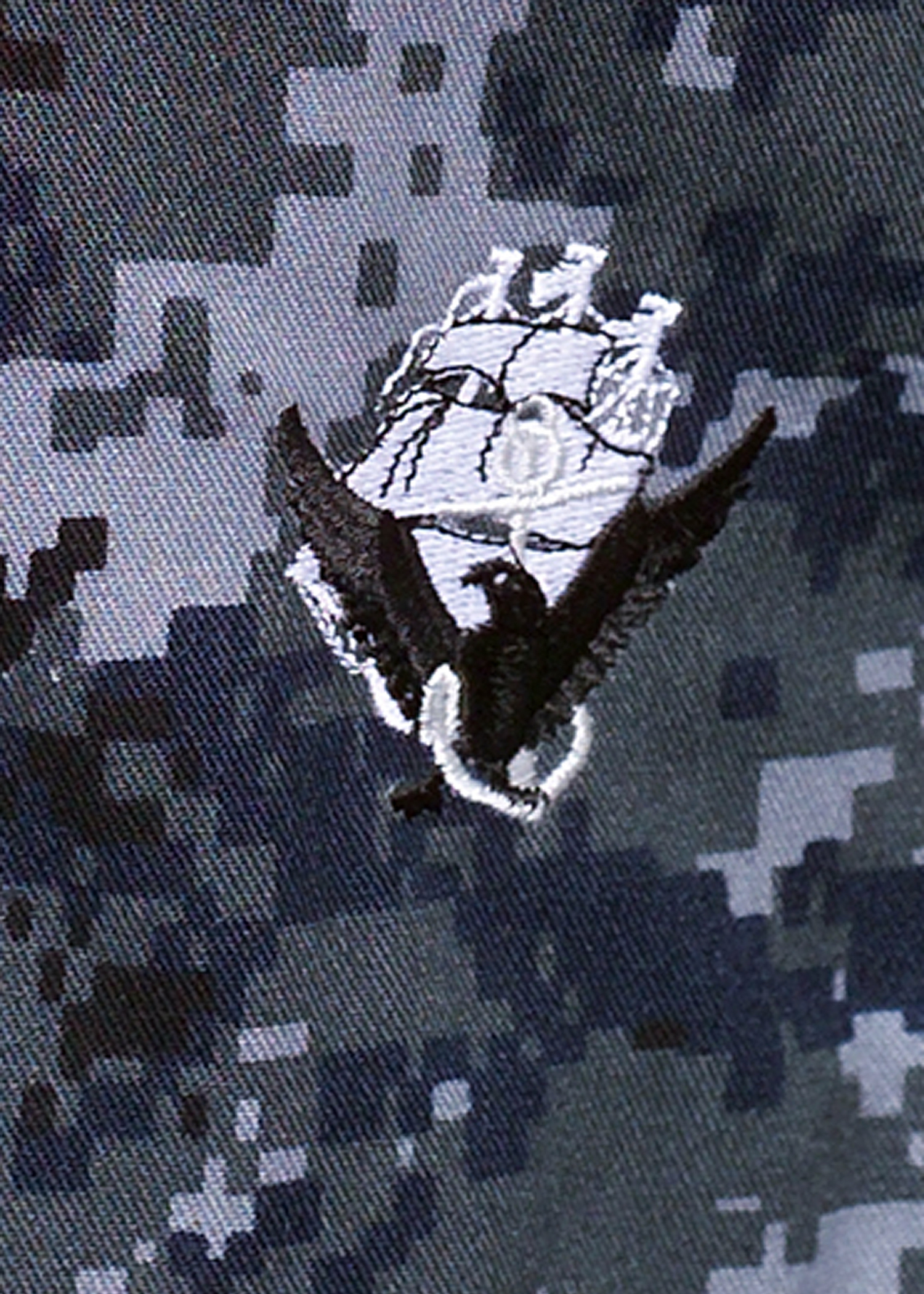 The new Navy insignia, Anchor, Constitution and Eagle (ACE), will be worn on the left top pocket of the new digital-pattern test uniform. The anchor symbolizes naval service, the Constitution is a heraldic nod to the Navy’s oldest commissioned warship and the eagle represents the United States. The Navy introduced a set of concept working uniforms for Sailors E-1 through O-10, Oct. 18th, in response to the fleet's feedback on current uniforms. Each uniform offers a variety of options that Sailors will have the opportunity to choose from. Feedback from the fleet will be used to determine the final Navy Working Uniform.